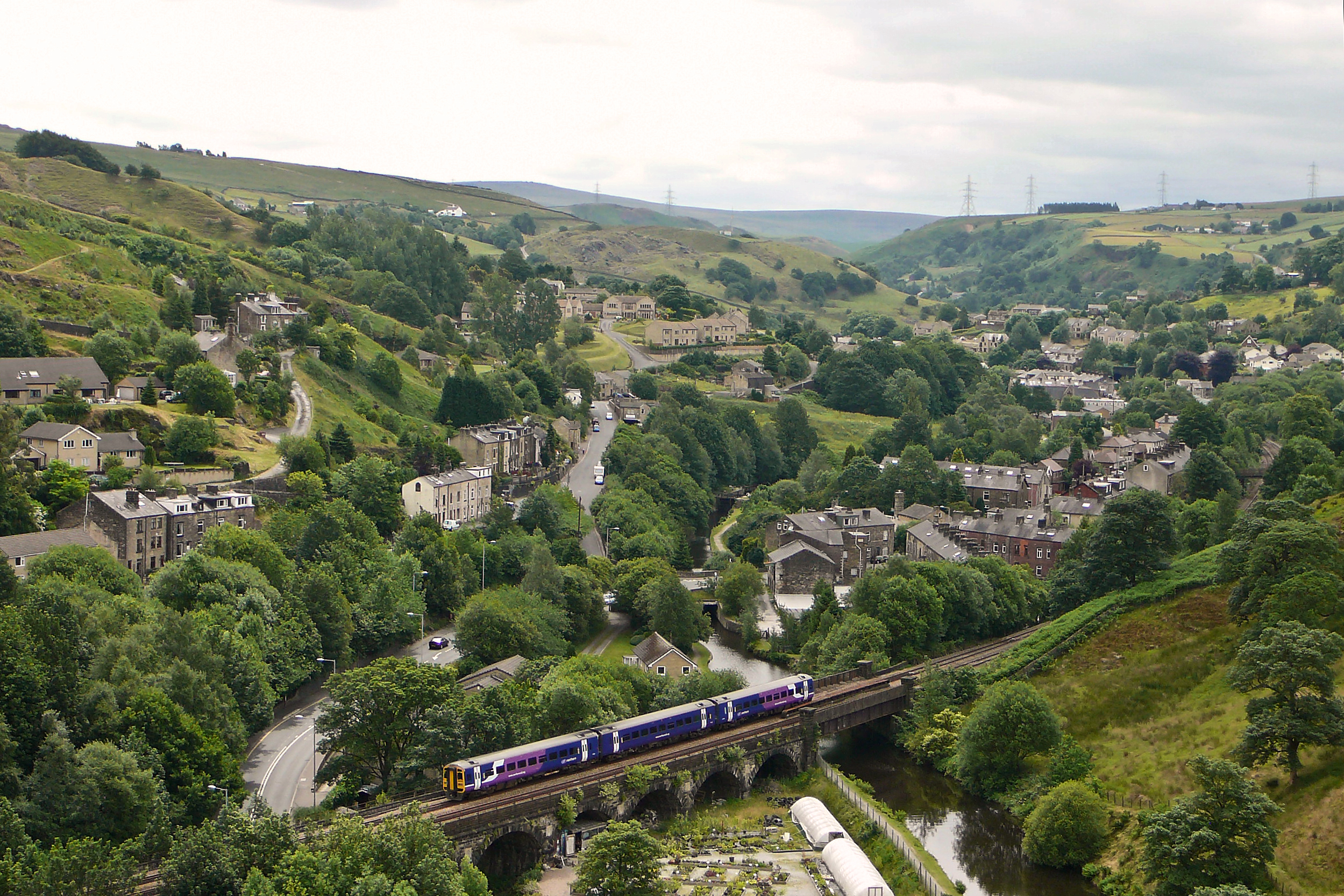 A view of Gauxholme & Walsden, near Todmorden in West Yorkshire from Watty Lane. The picture shows Gauxholme Viaduct in the foreground crossing the Rochdale Canal. Behind that is the village of Walsden. Taken on Saturday the 10th of July 2010.